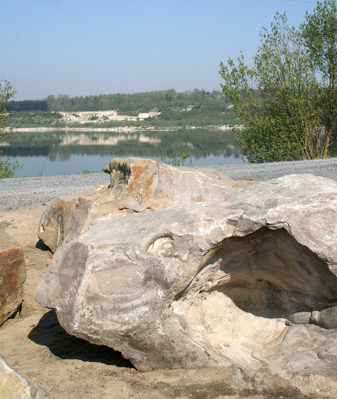 Obourg (Belgium), geological garden.